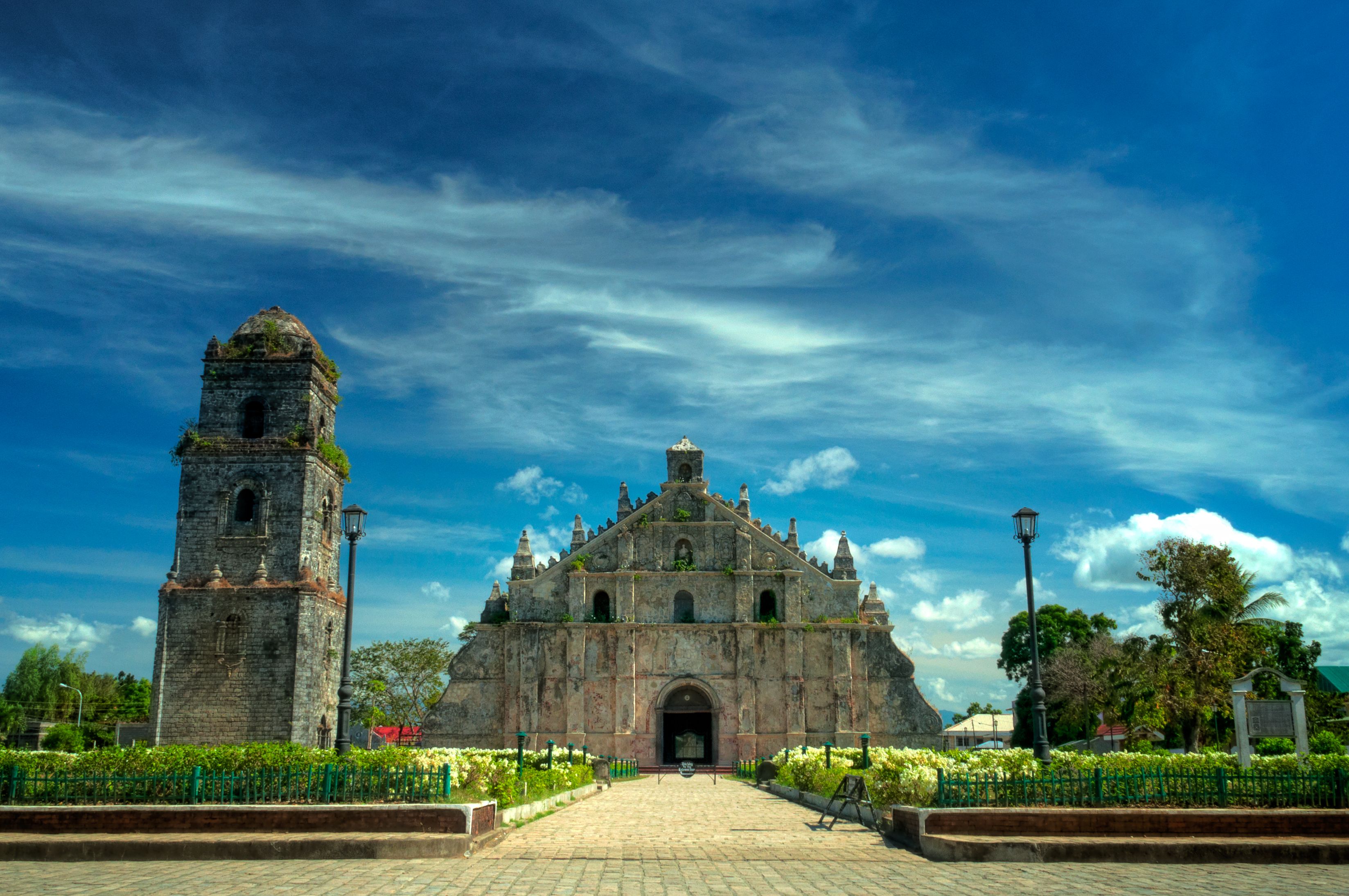 The Church of Saint Augustine, commonly known as the Paoay Church, is the Roman Catholic parish church of the municipality of Paoay, Ilocos Norte in the Philippines. Completed in 1710, the church is famous for its distinct architecture highlighted by the enormous buttresses on the sides and back of the building. In 1993, the church was designated as a UNESCO World Heritage Site as one best examples of the Baroque Churches of the Philippines. Paoay Church is prime example of Earthquake Baroque architecture, which is the Philippine interpretation of the European Baroque adapted to the seismic condition of the country. Destructive earthquakes are common and have destroyed earlier churches all throughout the country.